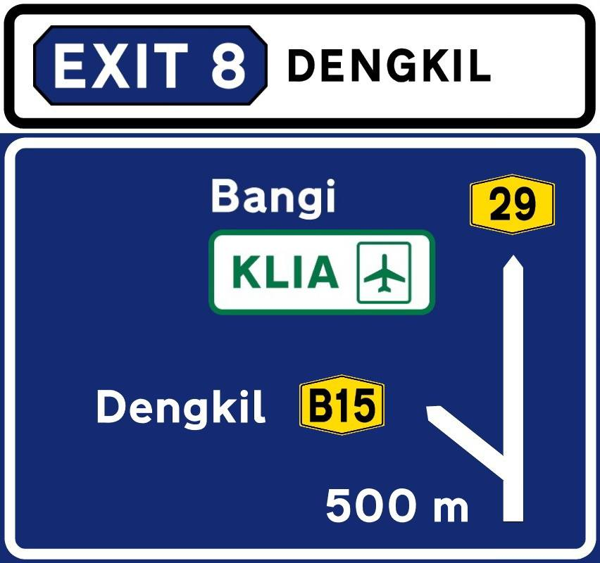 Highway interchange directional sign with exit number